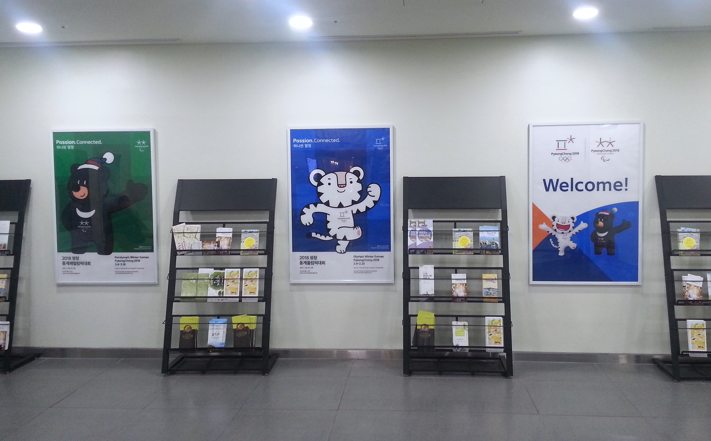 2018 Winter Olympic & Paralympic Promotion material in Seoul Express Bus Terminal. Mascots Soohorang and Bandabi